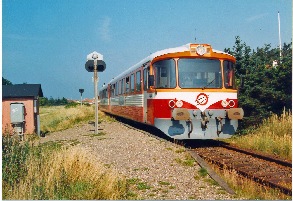 Description: Ys 14/Ym 14 "Tangen" am Haltepunkt Victoria Street Station. Dieser Haltepunkt heißt eigentlich Victoriagade und die Umbenennung erfolgte, weil es die Anwohner so wollten Source: Olaf Just Author: Olaf Just Date: 07.09.1999—Preceding unsigned comment added by Ollivius (talk • contribs) 28 June, 2006 (UTC) As far as I know, the station was called Vejlby (named after the very small hamlet nearby), but was renamed Victoria Street Station by local inhabitants. As a sort of permanent joke, ironical about the very deserted place, I assume. It is, however, the official name. It was never called "Victoriagade". Info from the official railway homepage here. [User:Sasper on wiki and wiki] --62.242.234.234 02:15, 24 June 2008 (UTC)